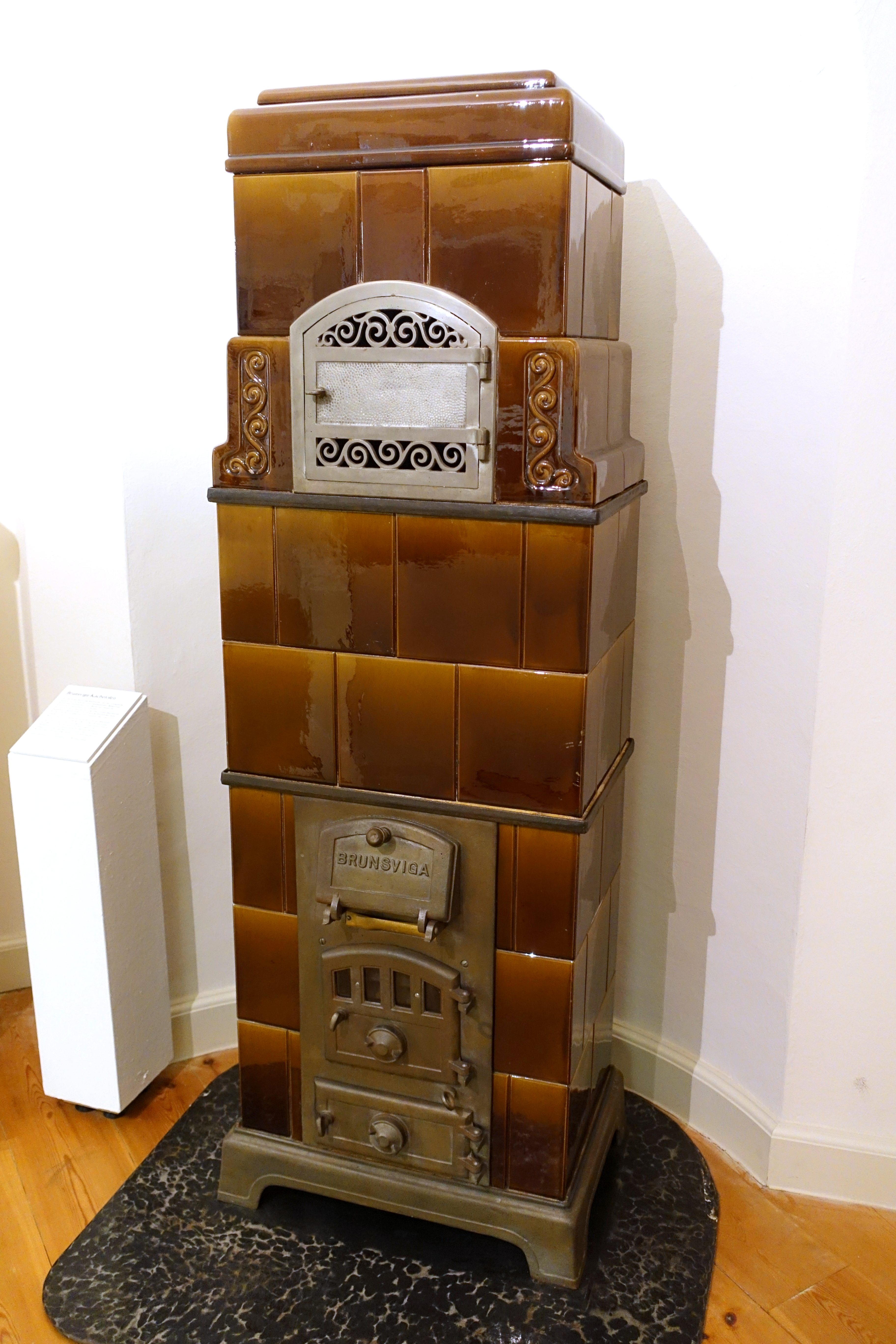 Exhibit in the Braunschweigisches Landesmuseum, Braunschweig, Germany. This work is in the public domain because the creator(s) died more than 70 years ago.